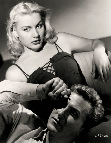 Barbara Payton and Lloyd Bridges in Trapped - publicity still (original image damaged, cropped and modified).